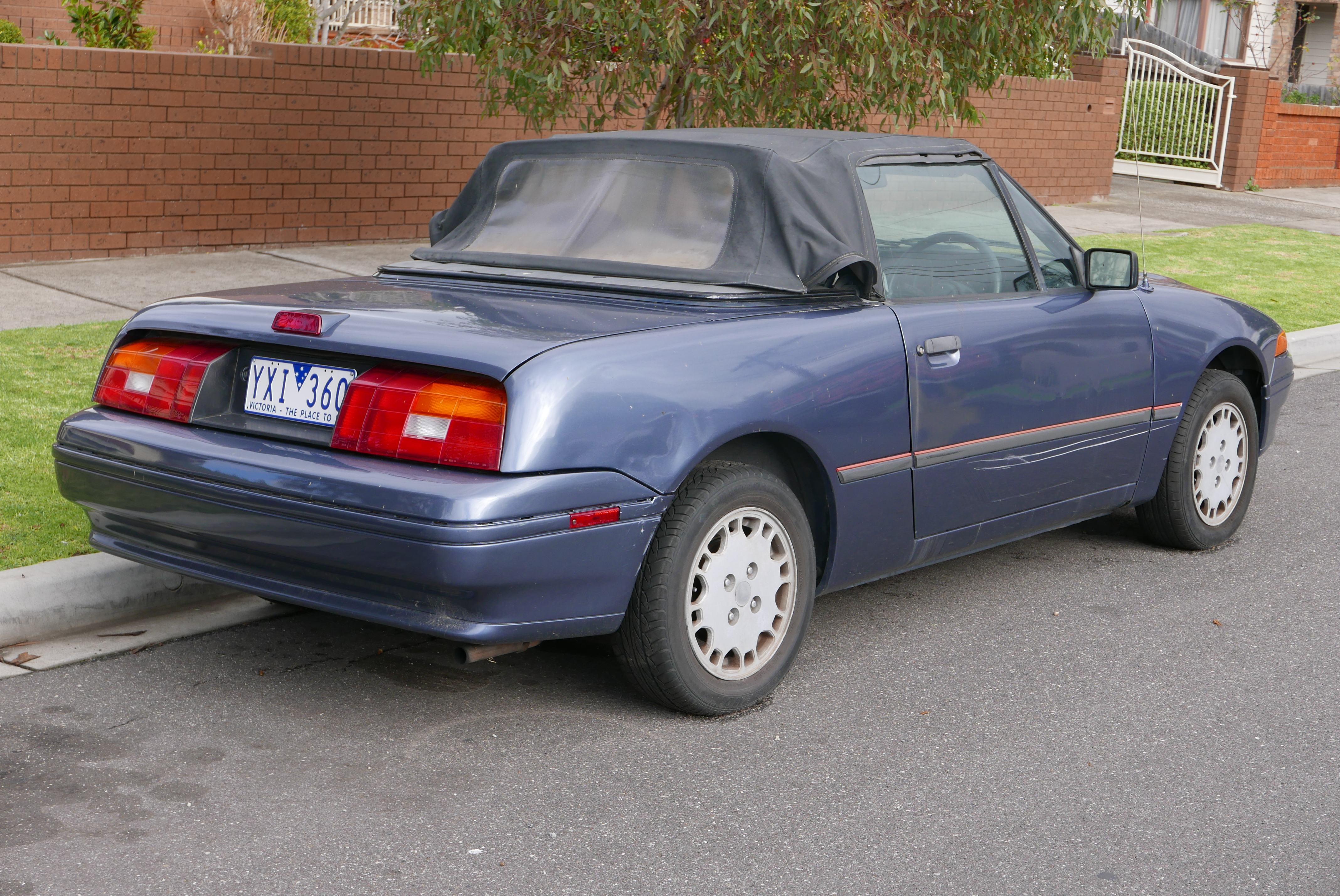 1990 Ford Capri (SA) convertible. Photographed in Thornbury, Victoria, Australia. Vehicle registration enquiry results Jurisdiction Victoria Registration YXI360 Chassis code 6FPAAAUL01LY94615 Engine code UL01LY94615 Compliance date 1990-02 Year of manufacture 1990